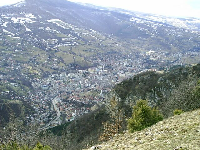 Town of Travnik in the central part of Bosnia-Herzegovina